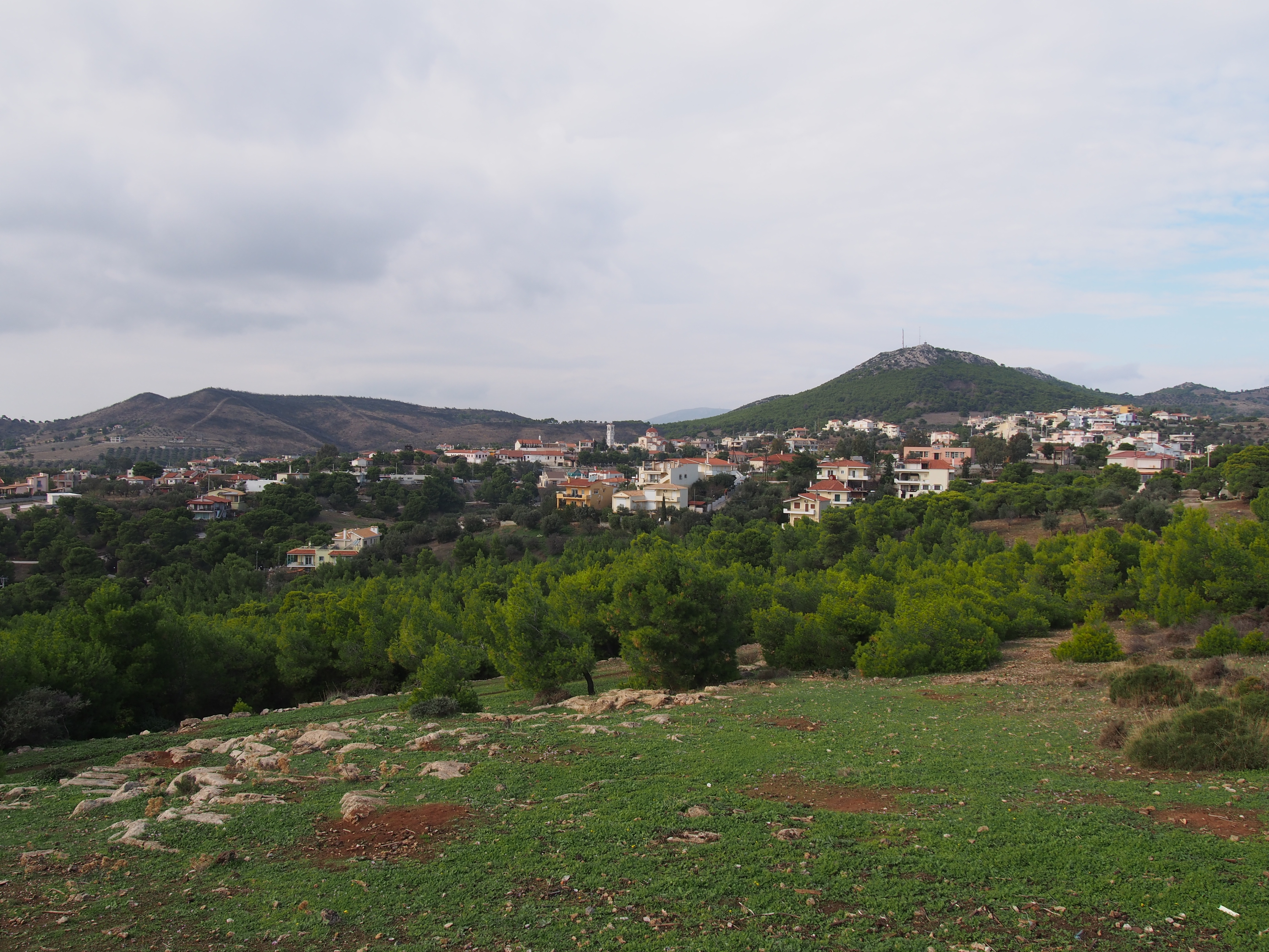 View of Agios Konstantinos or Kamariza, Attica, from football pitch.